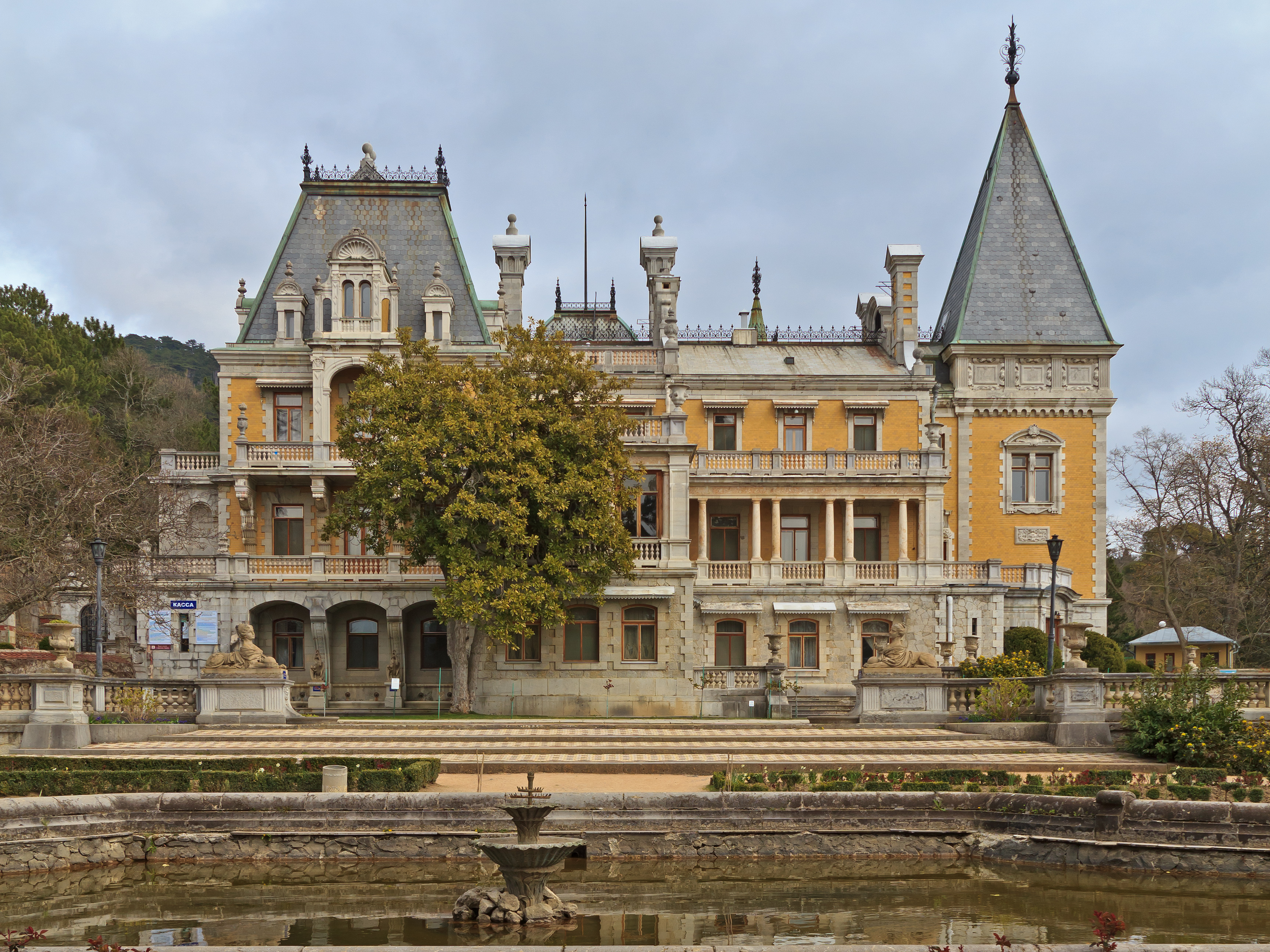 The Massandra Palace near Yalta, Crimean Peninsula.